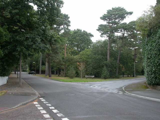 Branksome Park, open space Triangular piece of open space at the junction of Western Avenue & Bury Road.